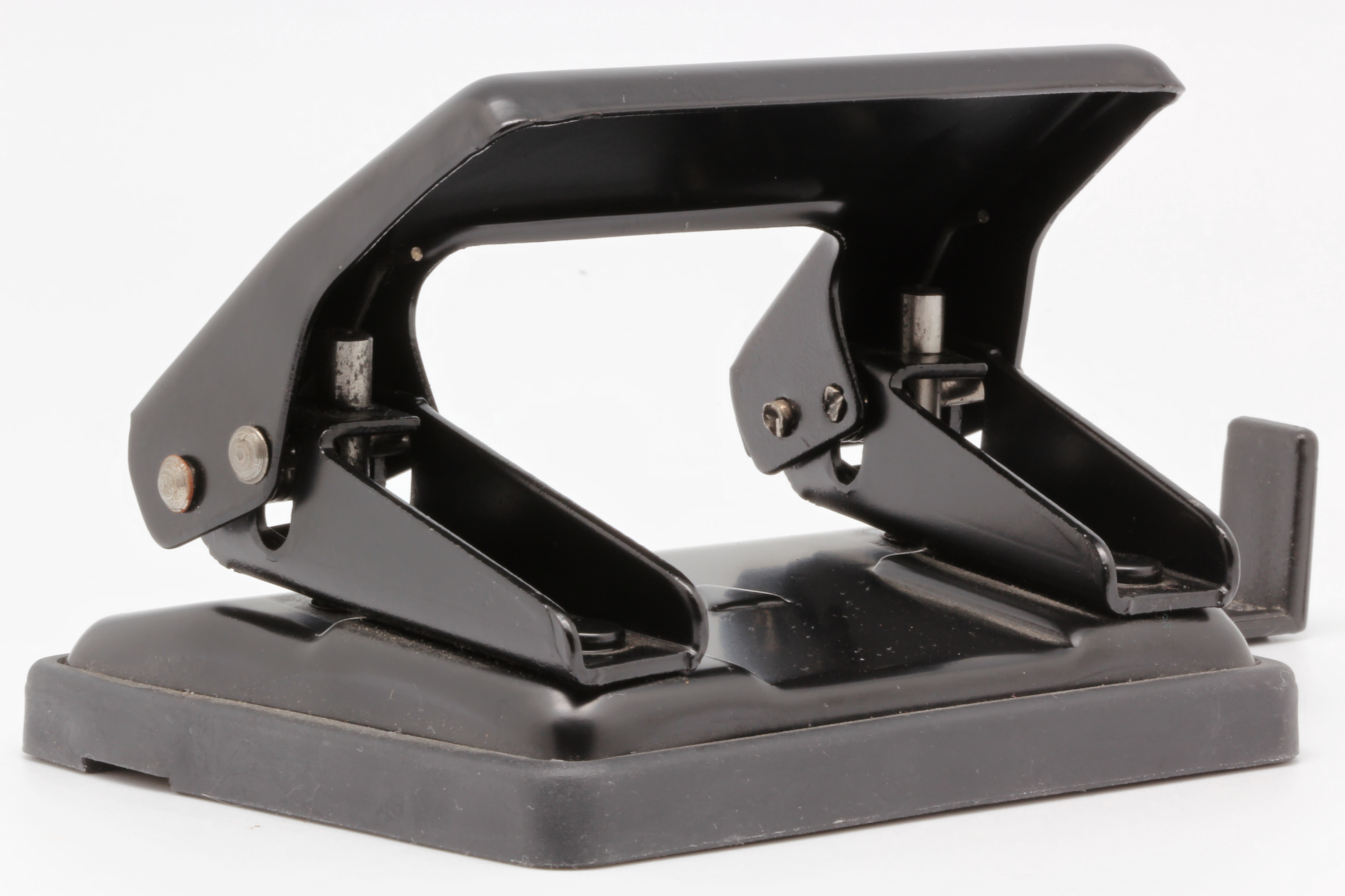 hole punch